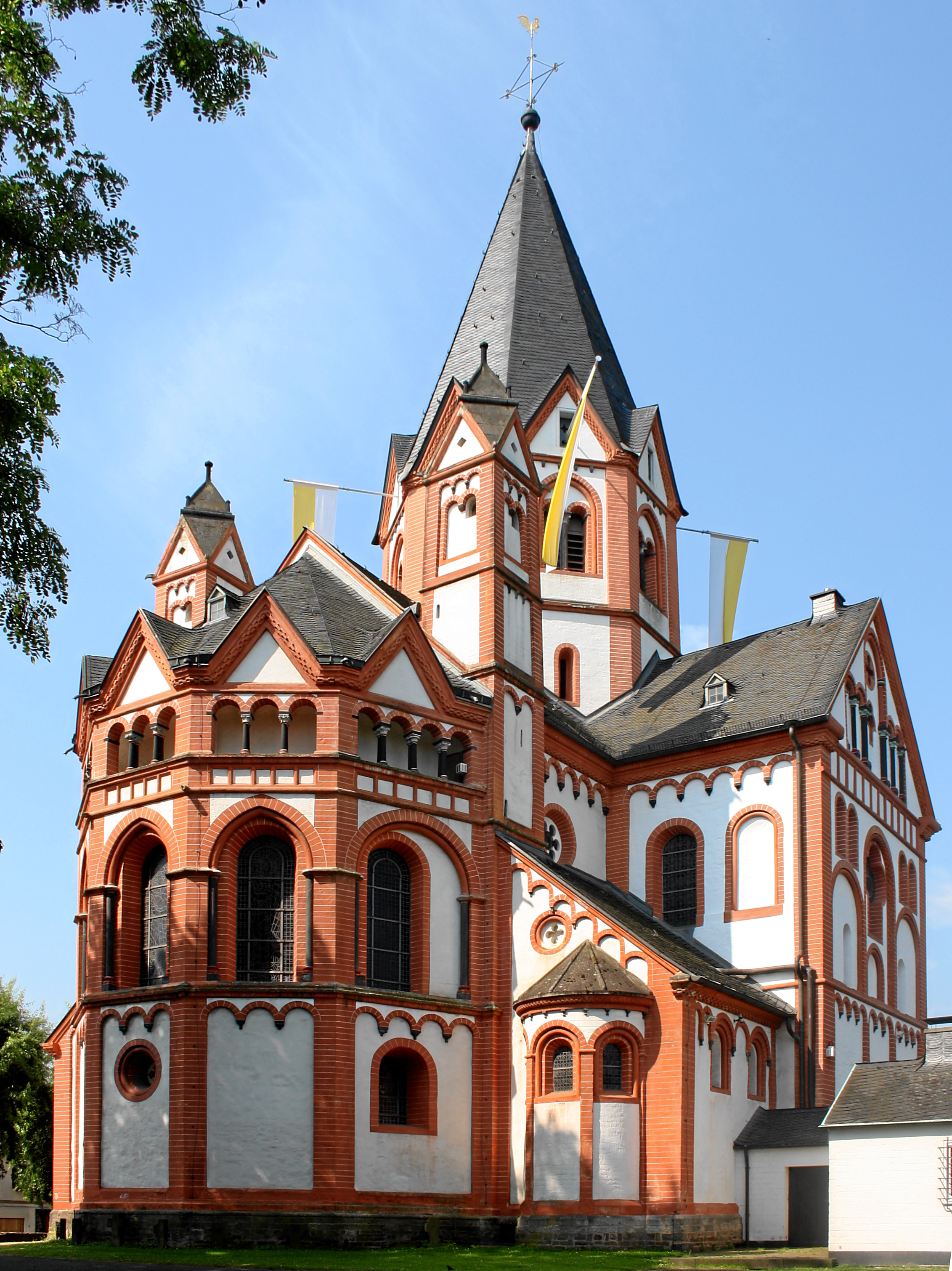 Sinzig, Germany. Roman-catholic church Saint Peter, exterior view from East.